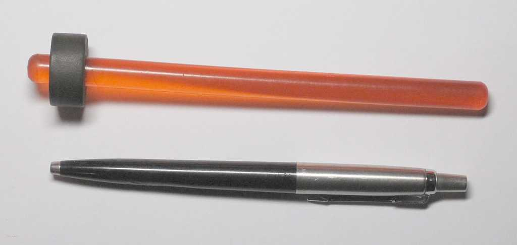 Radio- & TV repair-man's tool for testing microphony in thermionic valves (tubes). The black rubber grommet gives the valve (tube) a firm but safe impact.